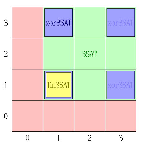 Assuming a boolean formula consisting of 2 clauses á 3 literals, there are 4*4 possibilities of how many literals of the 1st and 2nd clause are made true by a variable assignment. The image shows for each combination (m,n) of true-literal counts whether the formula is unsatisfied (red), 3-satisfied (green), xor-3-satisfied (blue), or/and 1-in-3-satisfied (yellow). The relation 1-in-3-sat ⇒ xor-3-sat ⇒ 3-sat generalizes to formulas of arbitrarily many clauses á 3 literals.